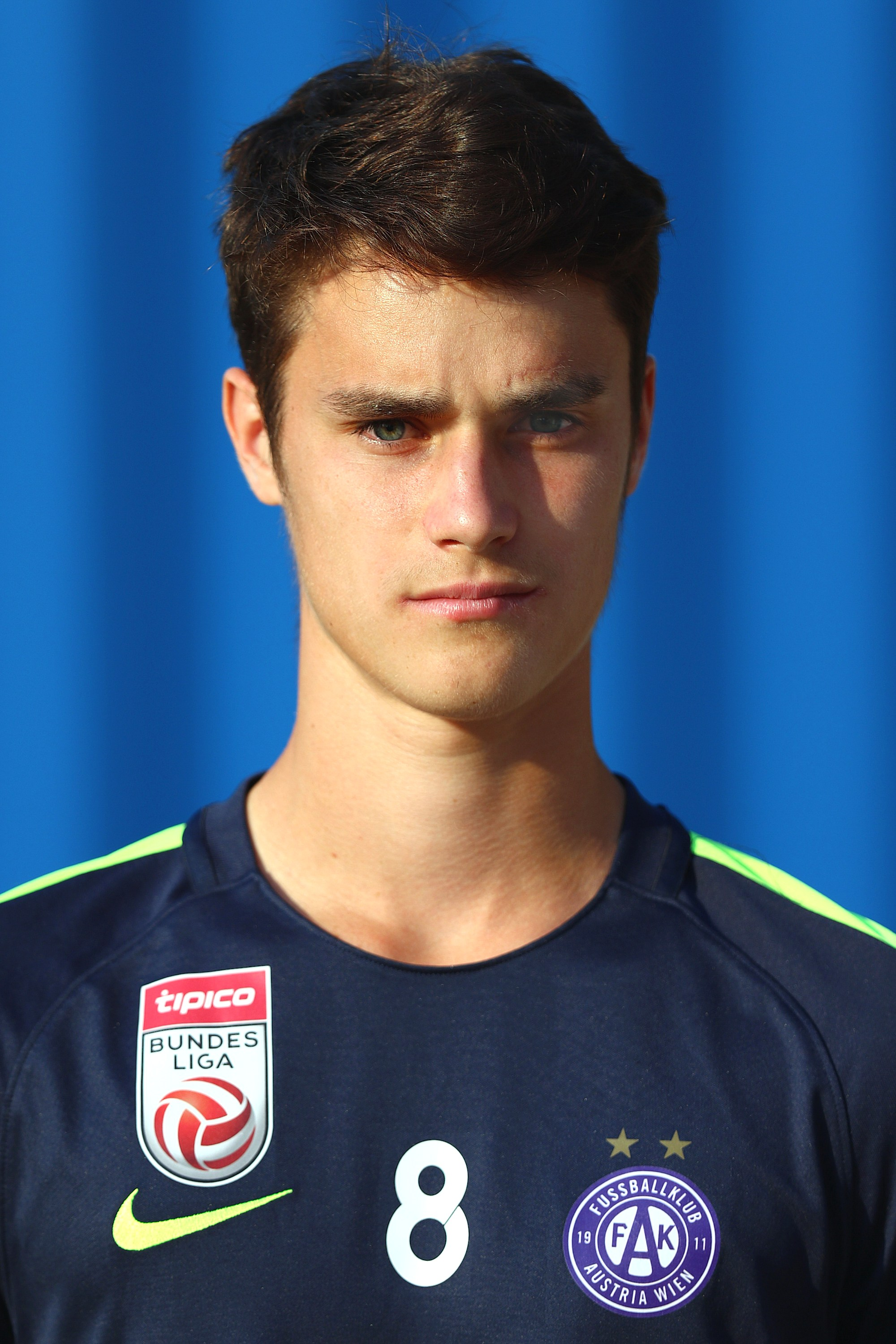 Championshipmatch of the 2nd League 2017–18 SC Wiener Neustadt (white shirts) vs. Young Violets (violet shirts) at 2018-08-17 in the Stadion in Wiener Neustadt. – The photo shows Florian Hainka (FK Austria Wien II).